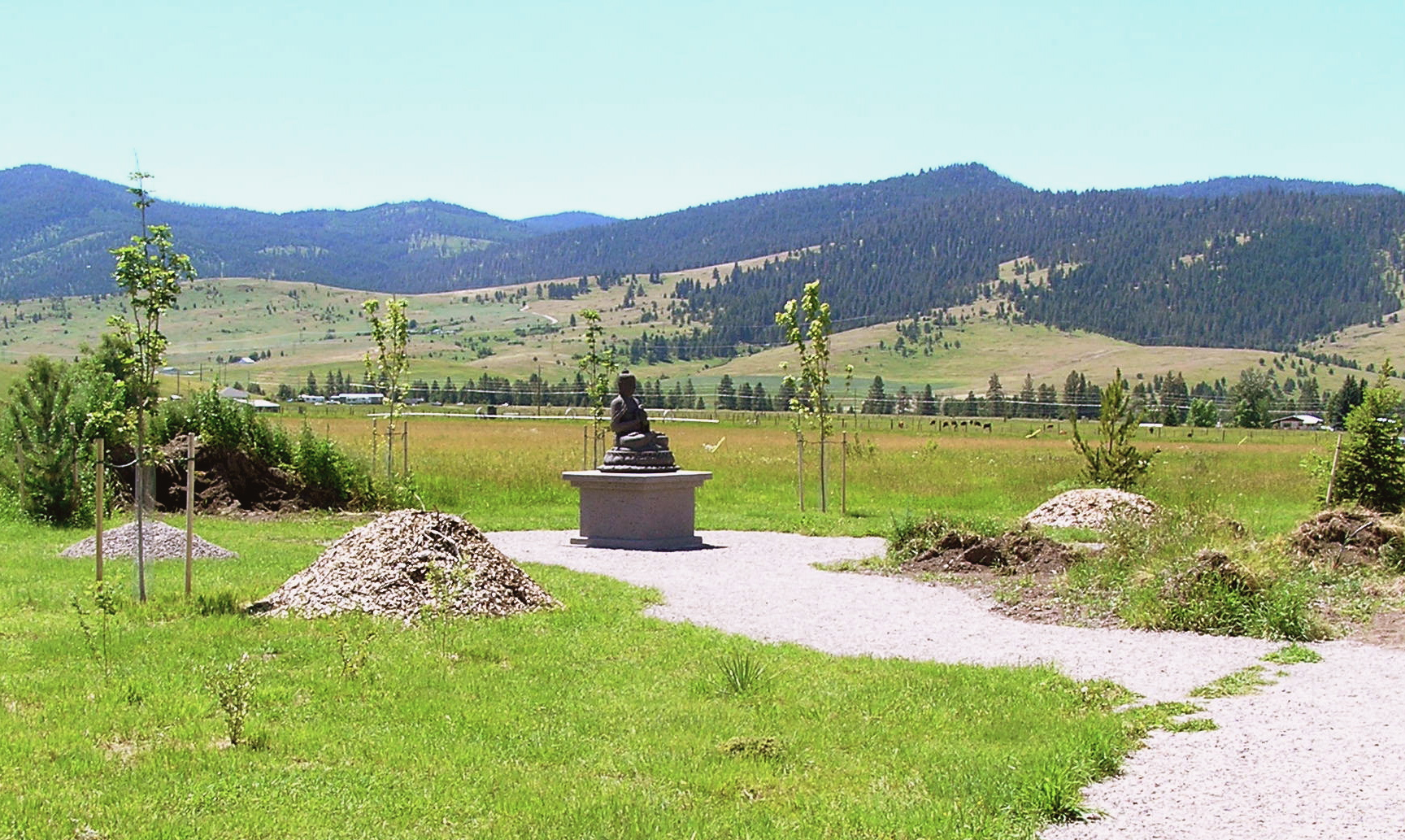 The Garden of One Thousand Buddhas, near Arlee, Montana